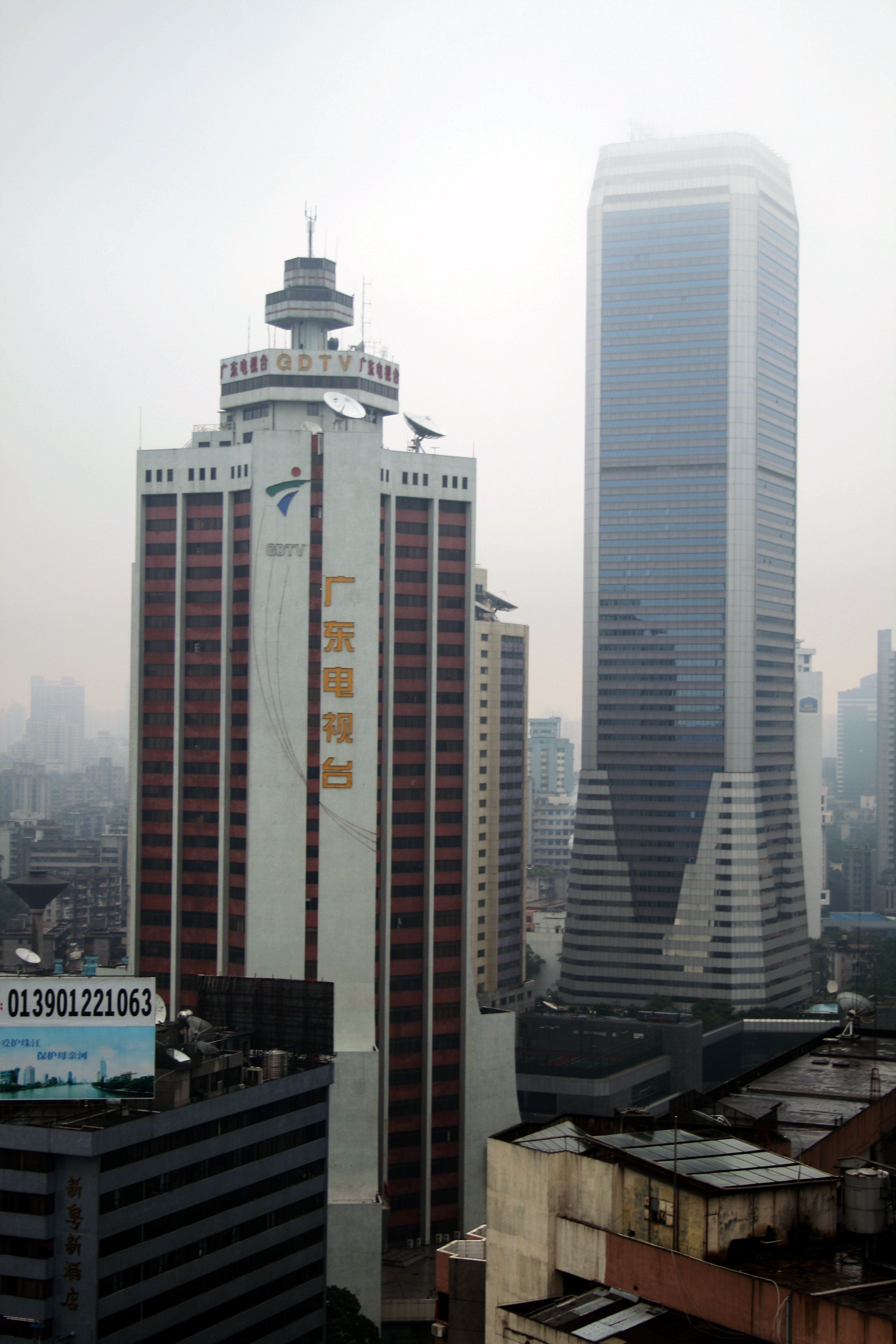 The Guangdong Television Building and Guangdong International/CITIC Plaza Hotel building